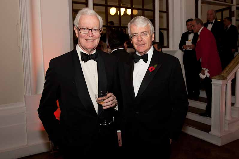 Lord Hurd and Sir John Major